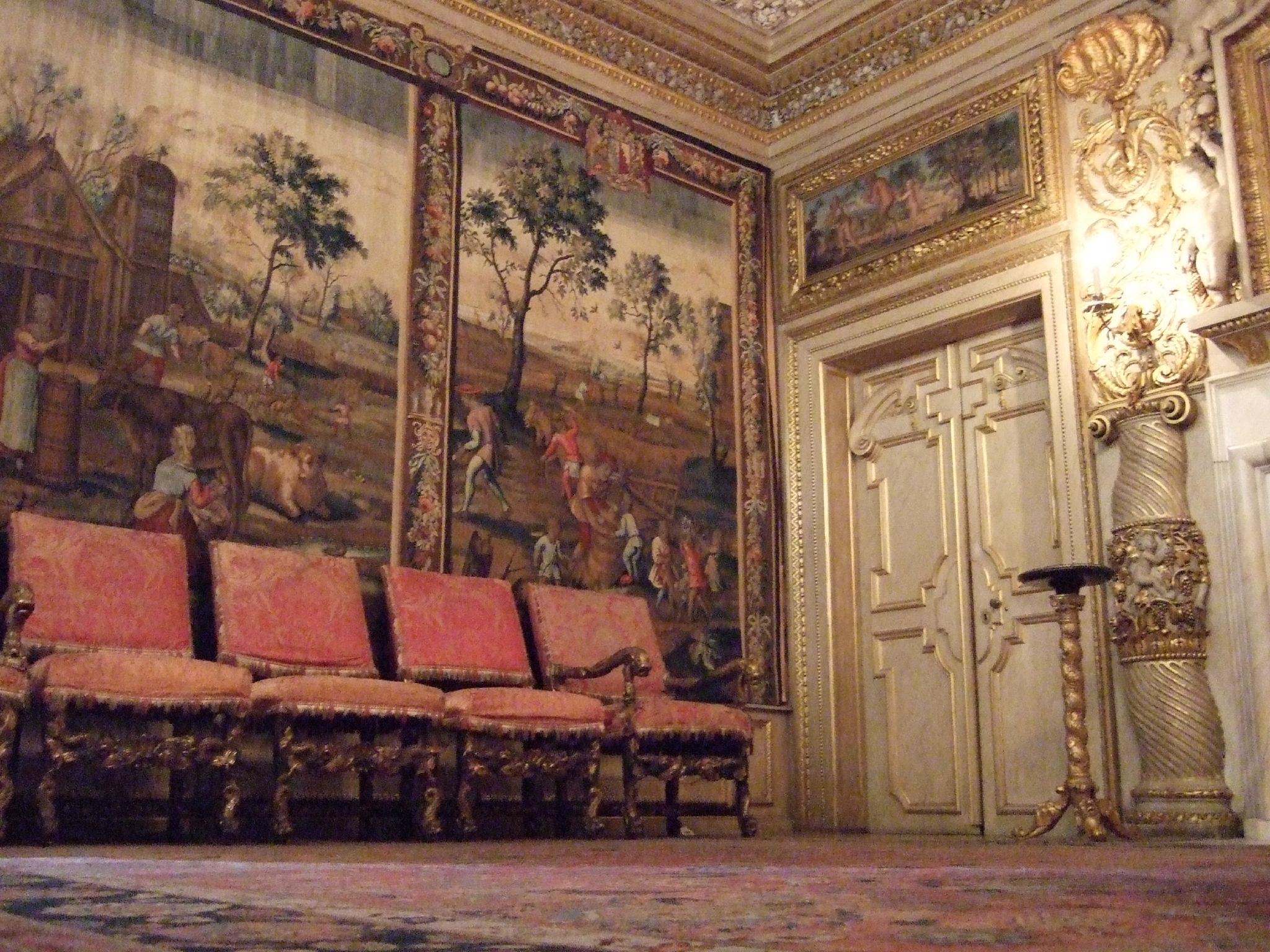 ham house